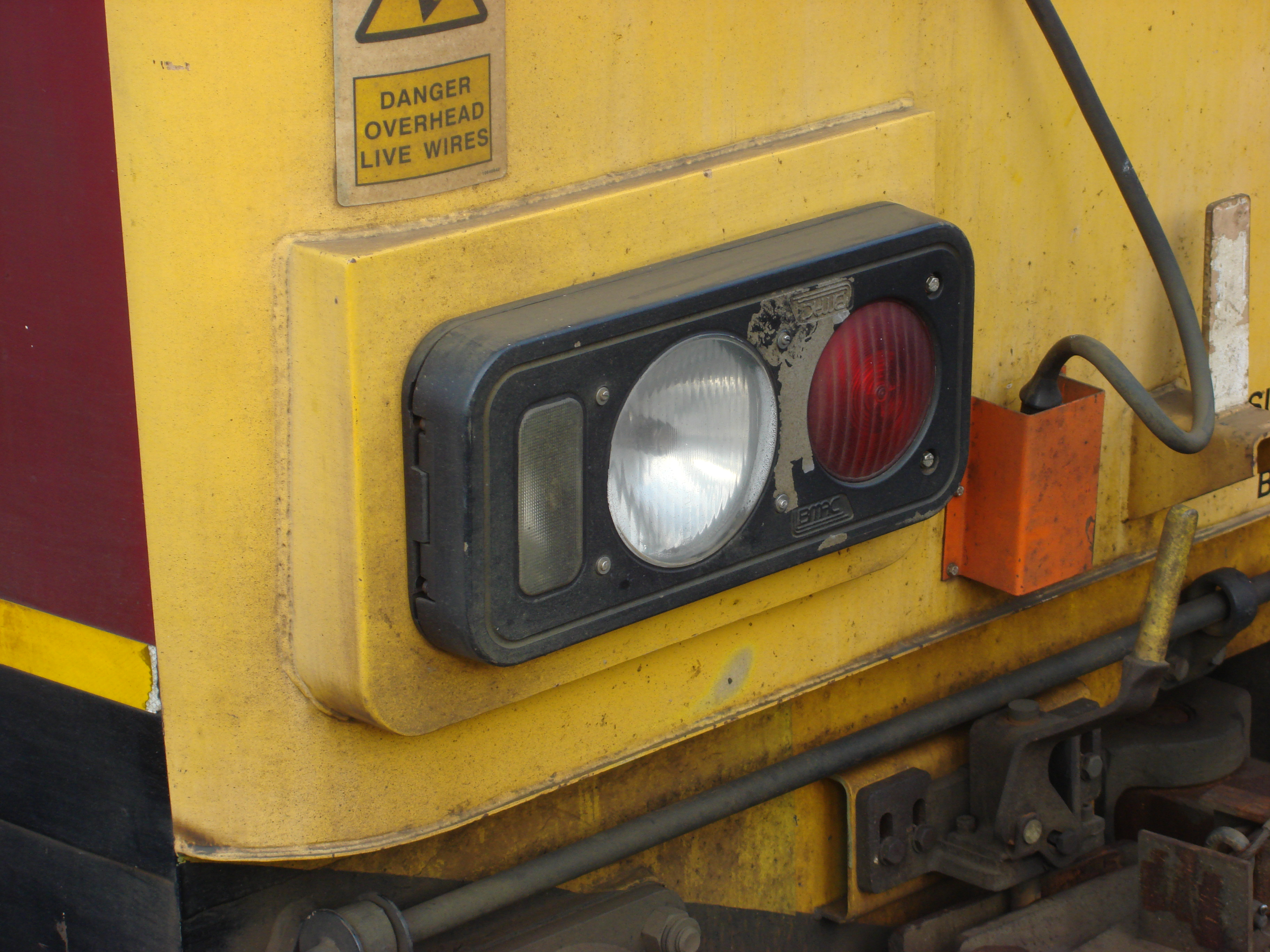 one of the WIPAC light clusters from 67023